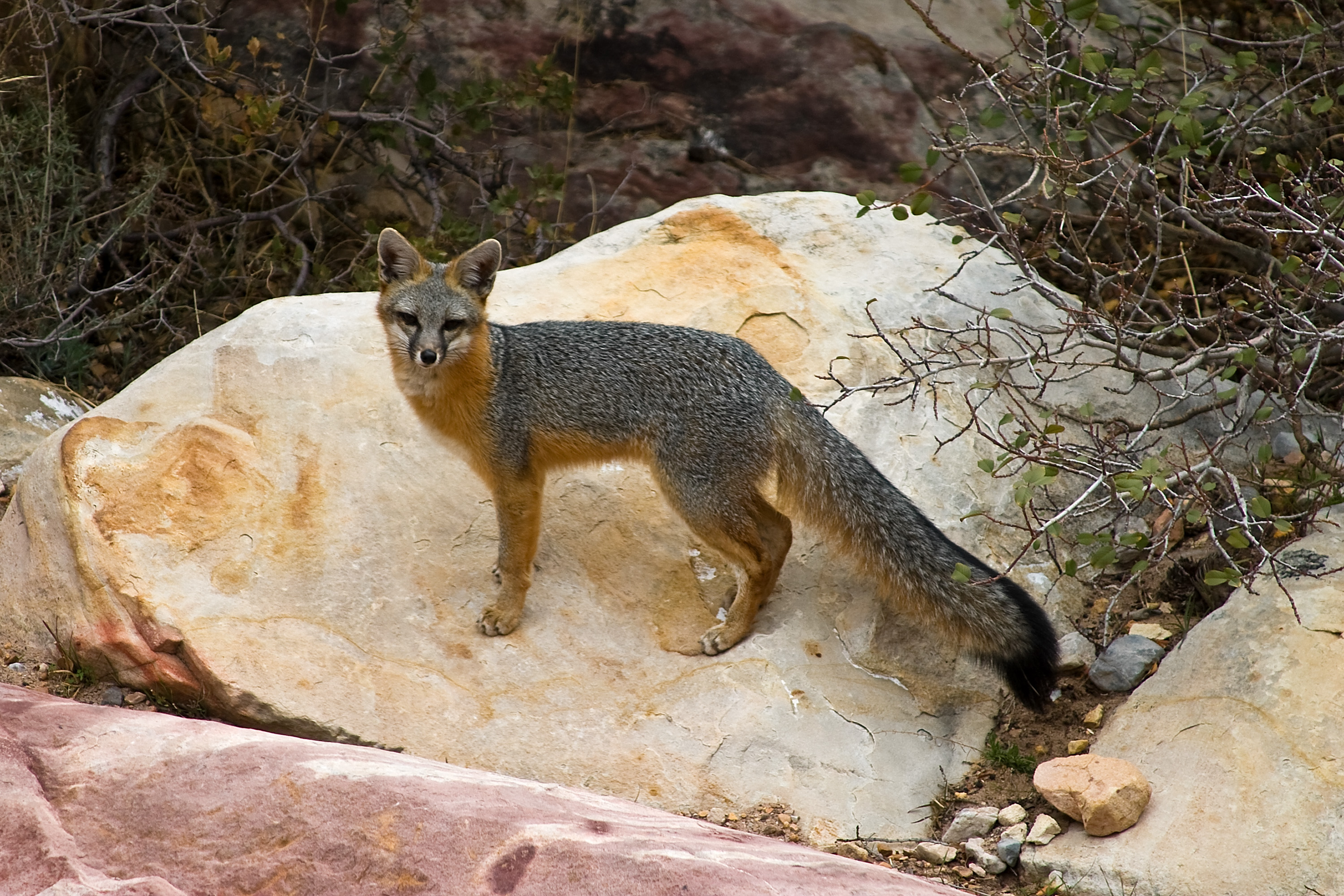 I think this is a gray fox, he came upon me as I was hiking in a small canyon looking for a seasonal waterfall. To view this photo larger or view purchase information click here.